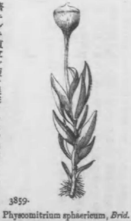 Physcomitrium sphaericum